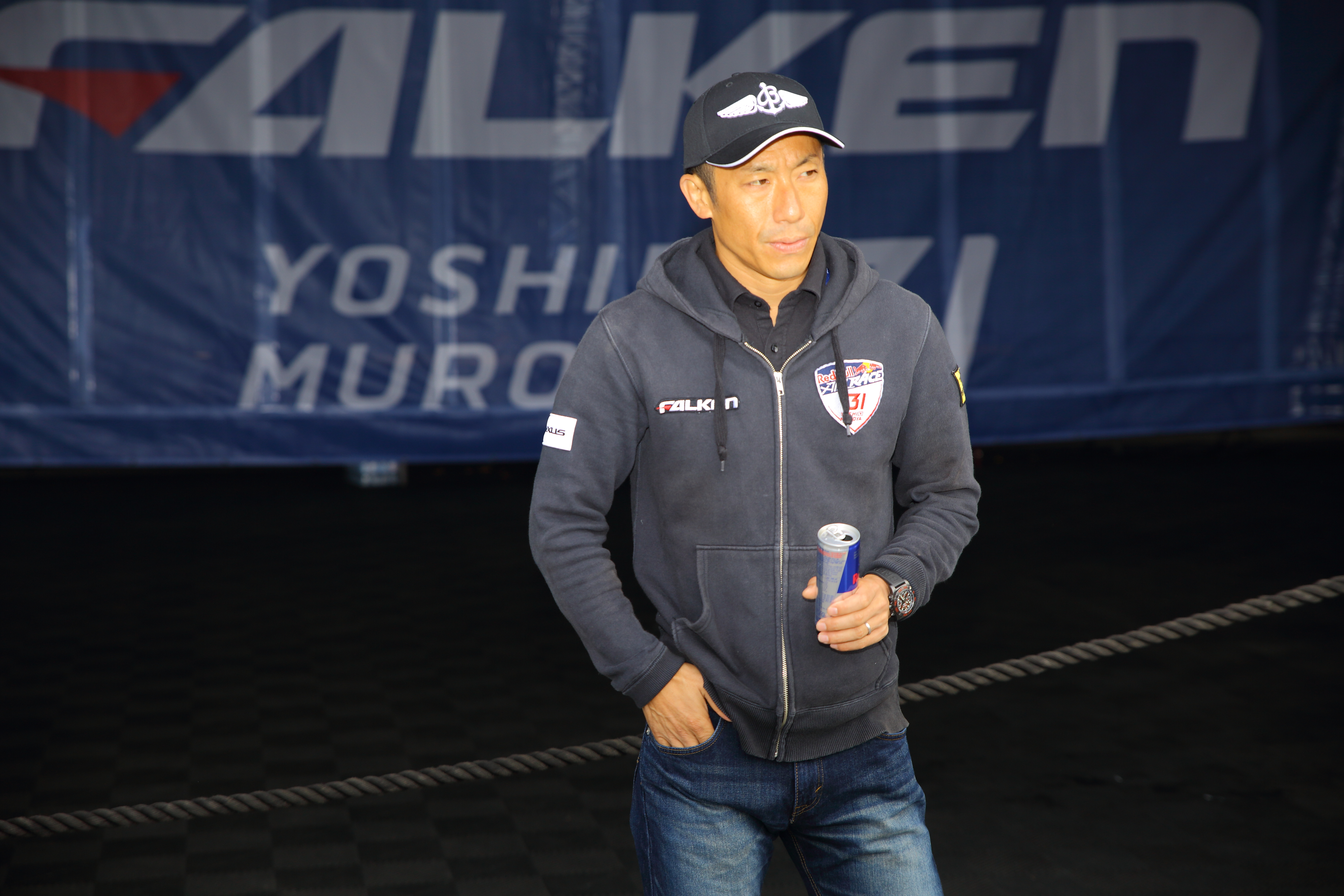 Yoshihide Muroya, 2017 Red Bull Air Race of Porto